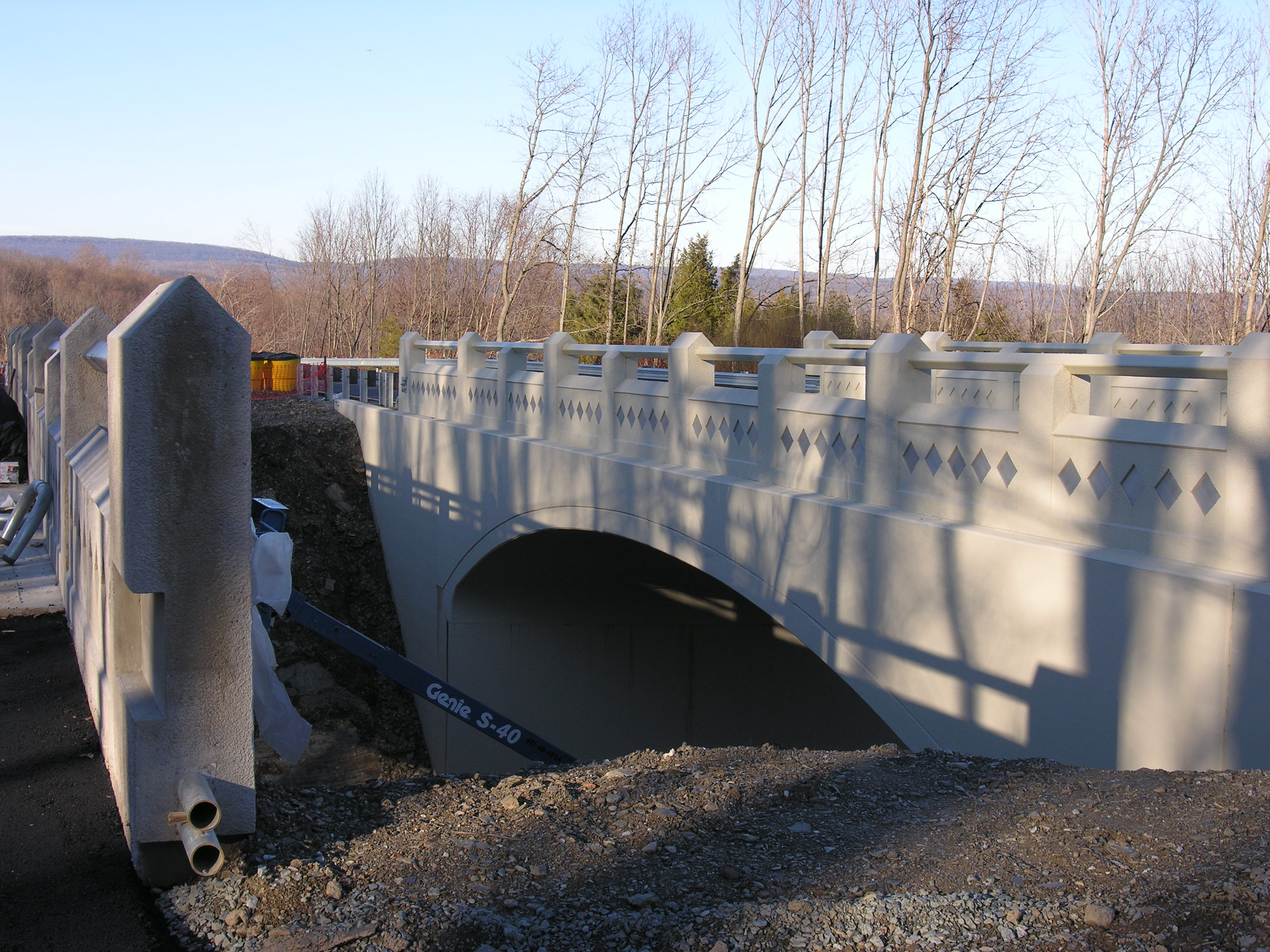 County Route 521's crossing of the Lackawanna Cut-Off rail line in Blairstown in this November 2006 photo: the original one-lane 1910 reinforced concrete bridge (left) has been returned to mint condition and nears its grand reopening while its brand new, and virtually identical, sister bridge is already in service. The two bridges and the reconfigured access roadways serve to both preserve the original bridge and to provide highway standards that the Lackawanna Railroad's engineers never envisioned.